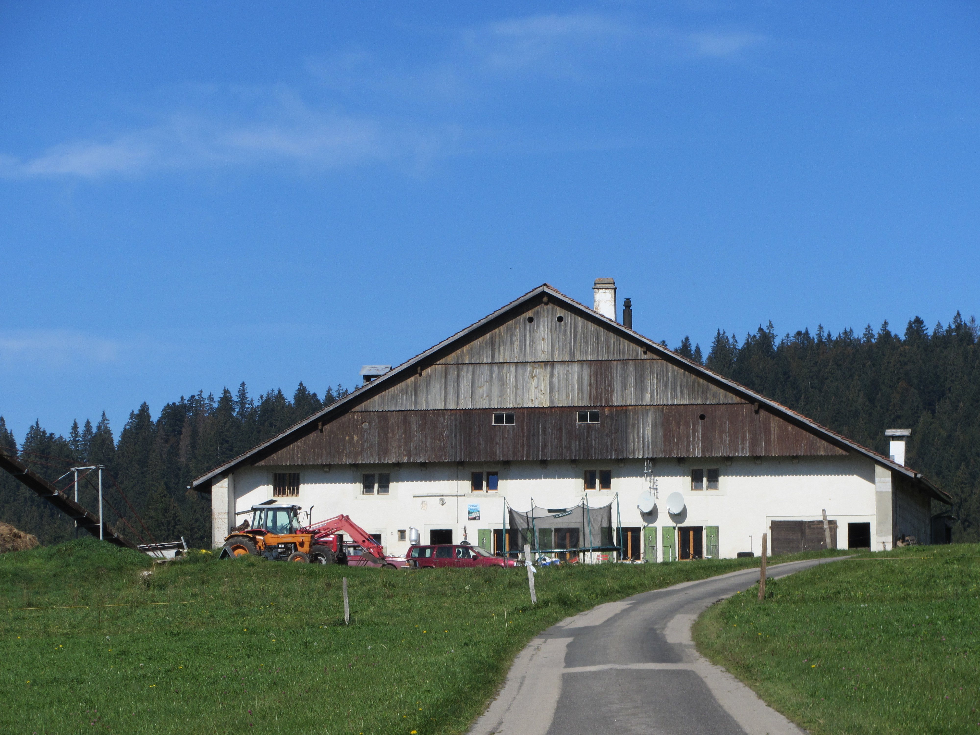 Switzerland, La Brévine, La Grosse Maison, double house, farmhouse